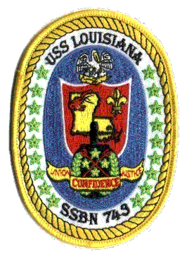 Photo of the ships patch for USS Louisiana (SSBN-743)